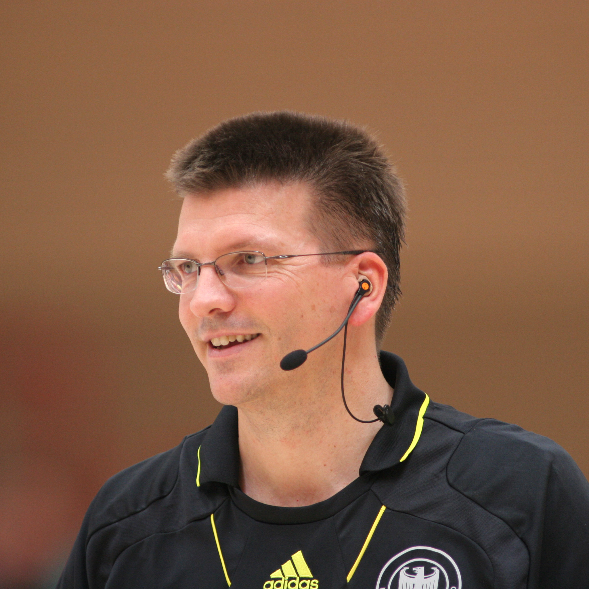 Holger Fleisch, German handball referee, during the Schlecker Cup 2011.